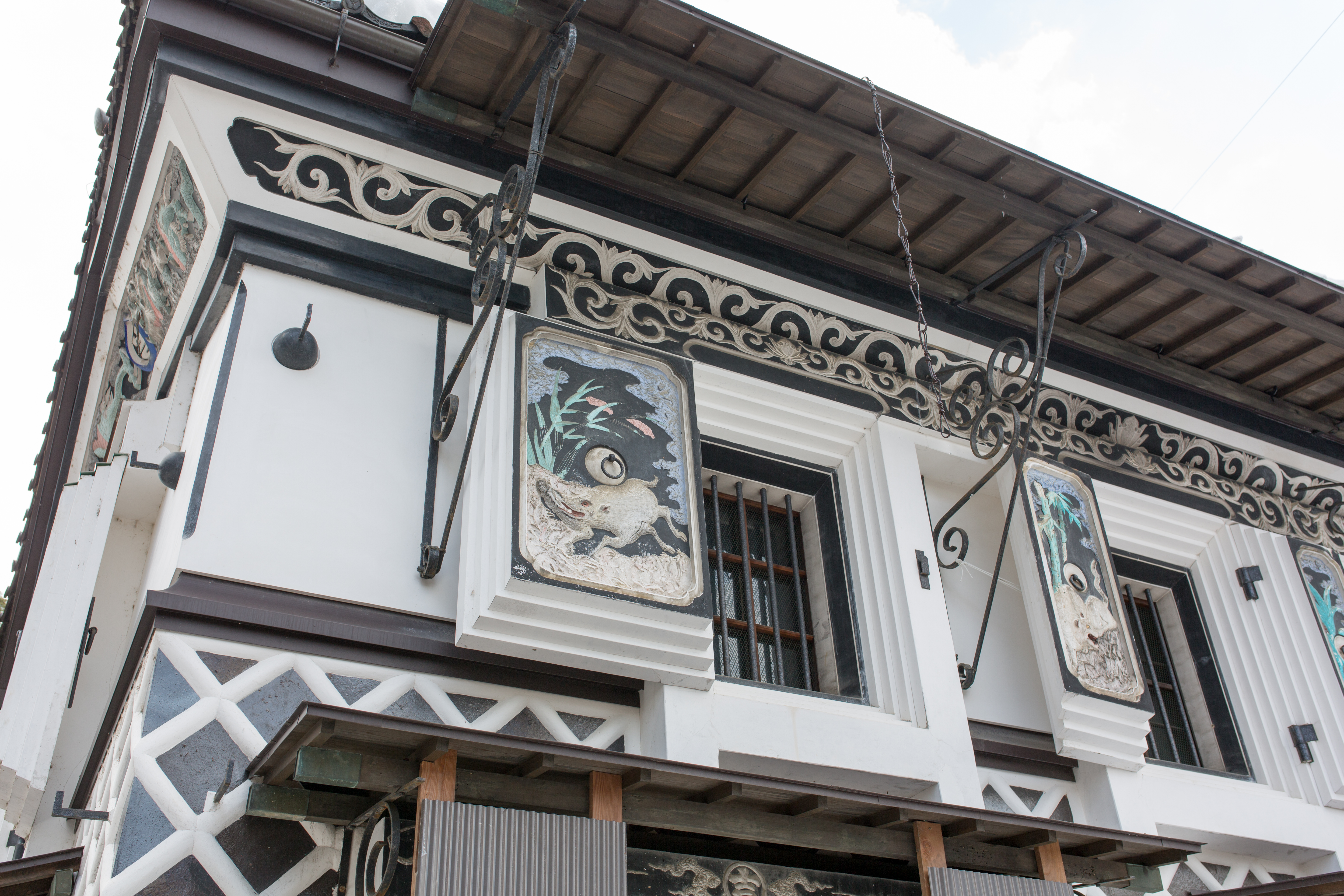 Warehouse of Quina Saffron Winery (Kina Saffron-syu Seizo Honpo) decorated with Kote-e, Nagaoka, Niigata Prefecture, Japan